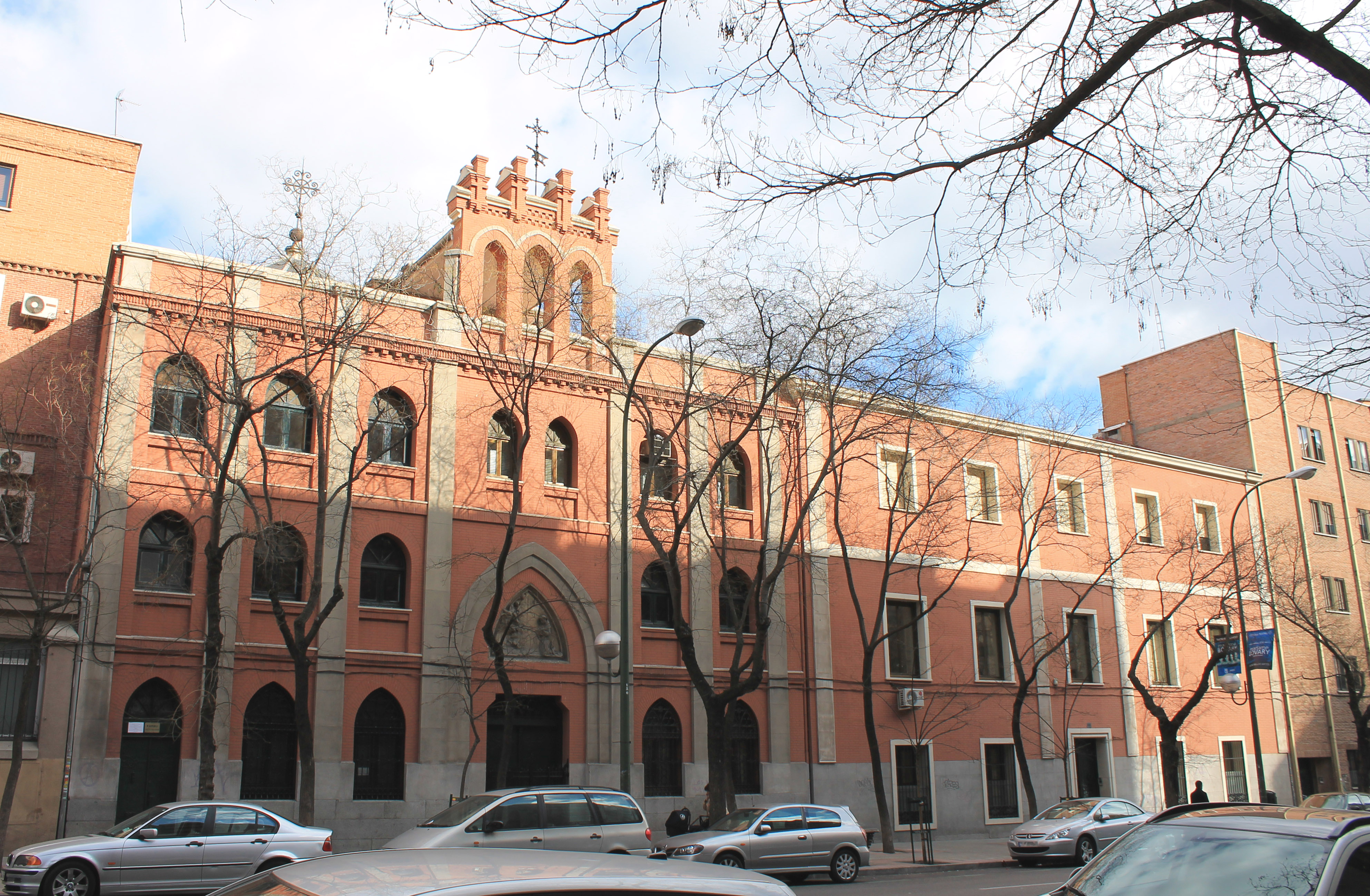 Façade of Colegio Divina Pastora (a school) in Madrid (Spain).